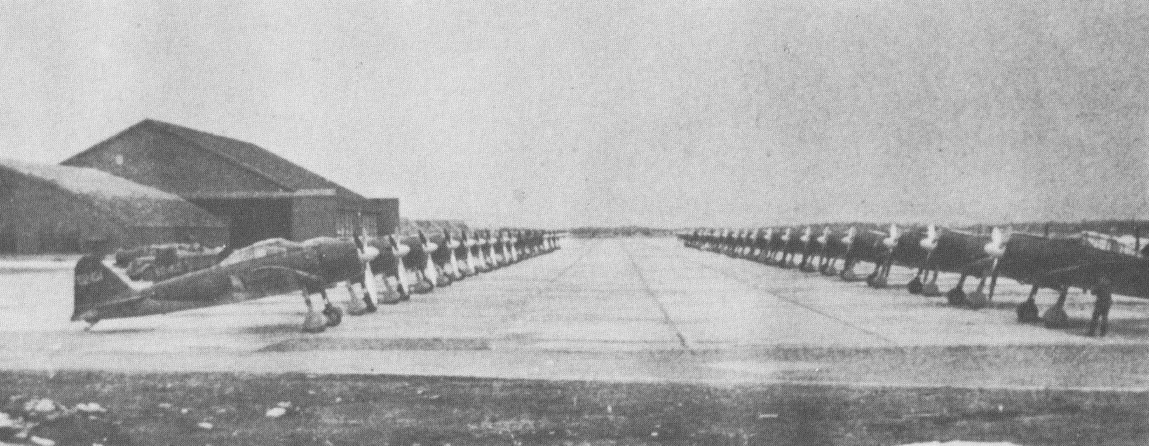 A6M Zeros of the Imperial Japanese Navy's 252 Air Group at Misawa Air Base, Japan. On the left are Model 52s, on the right, Model 21s.